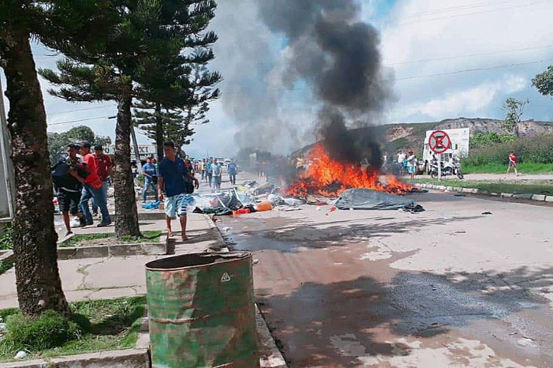 Social conflicts in Pacaraima between brasileiros and Venezuelan immigrants.